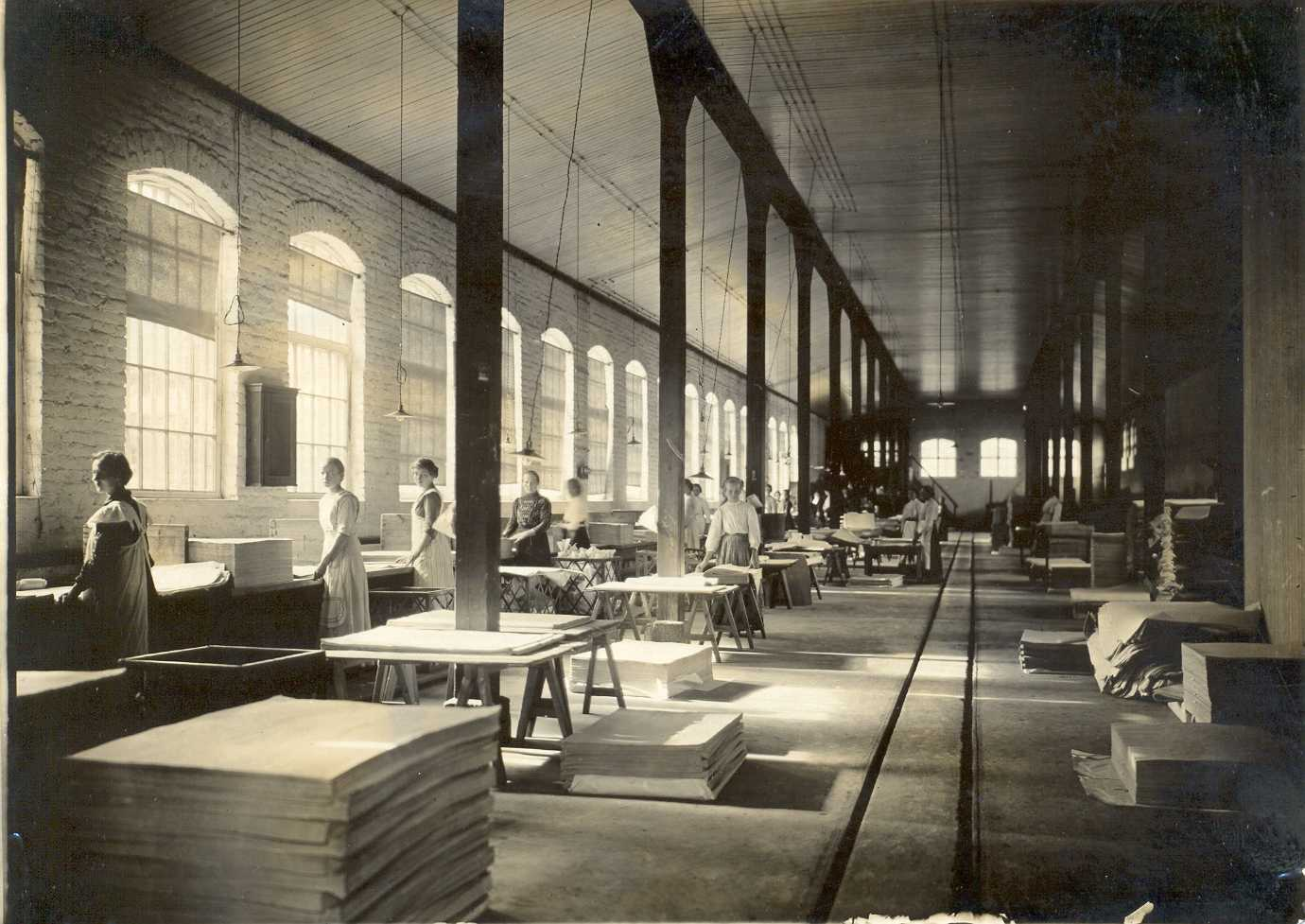 Interior of Hovilanhaara paper mill in Jämsänkoski, Finland in 1915